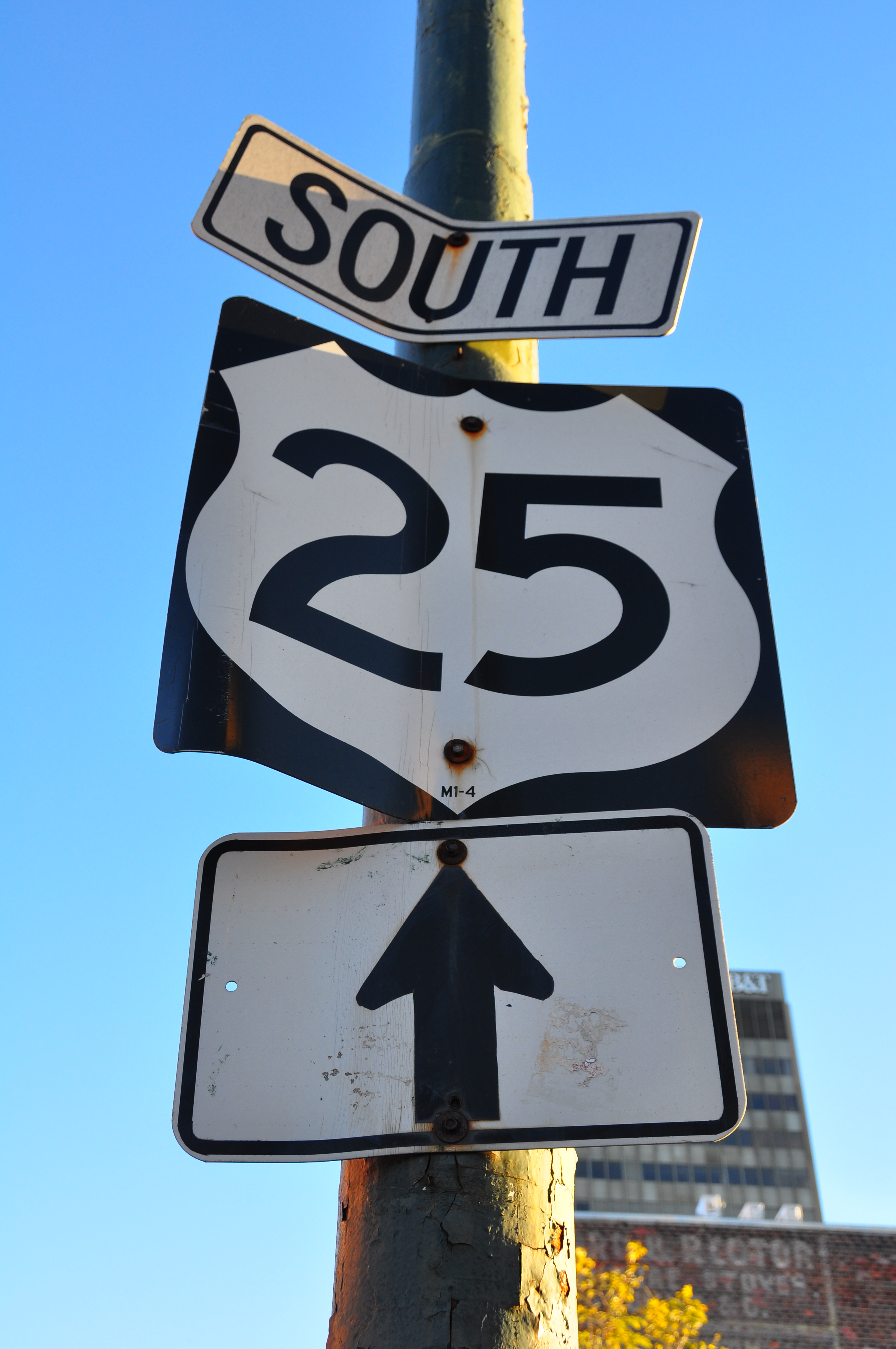 US 25 sign (that has seen better days) affixed on a lamp post along Broadway Avenue, in downtown Asheville.